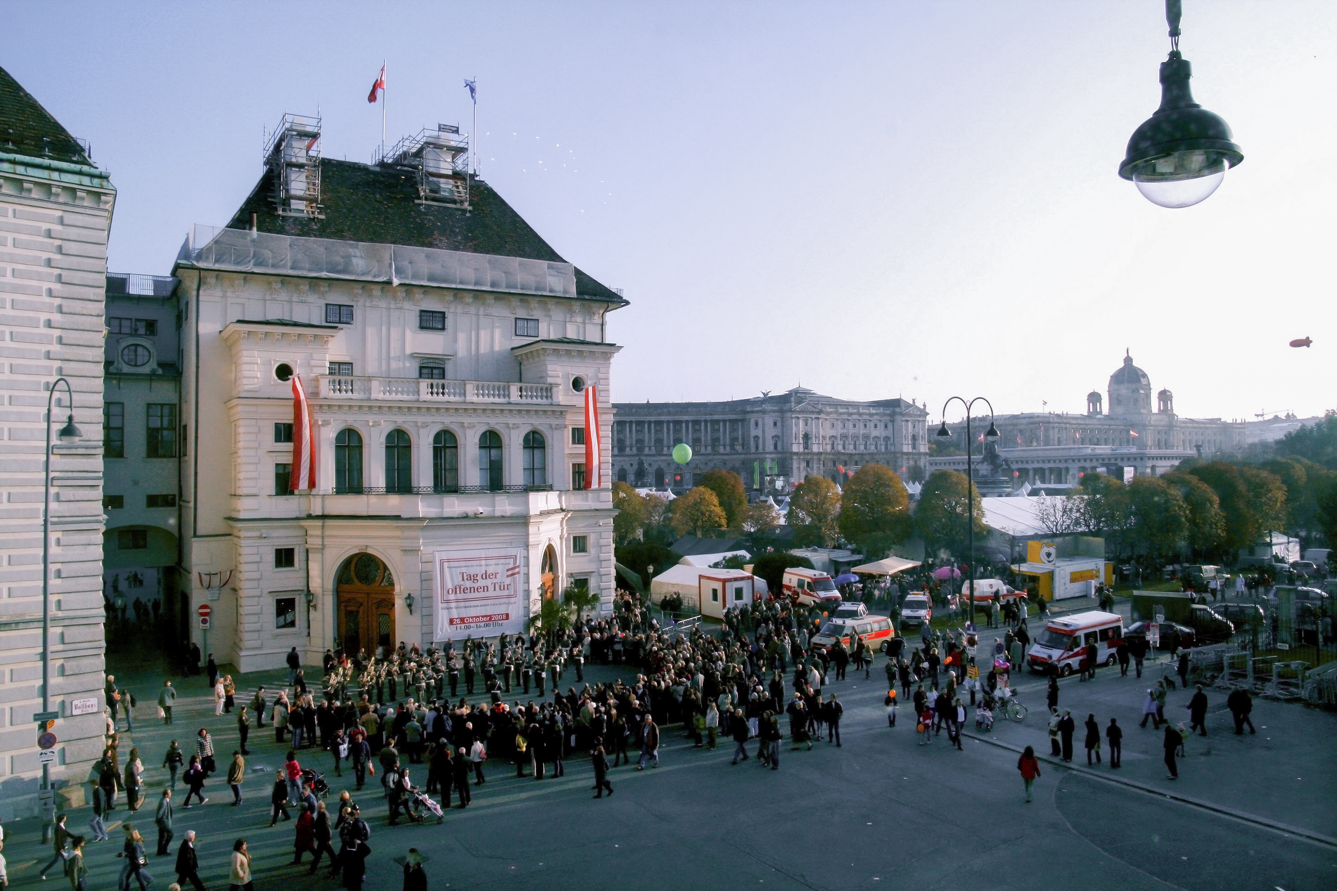 Austrian National Day 2008 in Vienna - view from the Federal Chancellery of Austria across Ballhausplatz to the Leopold Wing of Hofburg Palace, official residence of the President of Austria. In the background: Heldenplatz with Neuer Burg and Äußeres Burgtor, the Kunsthistorisches Museum in the back.